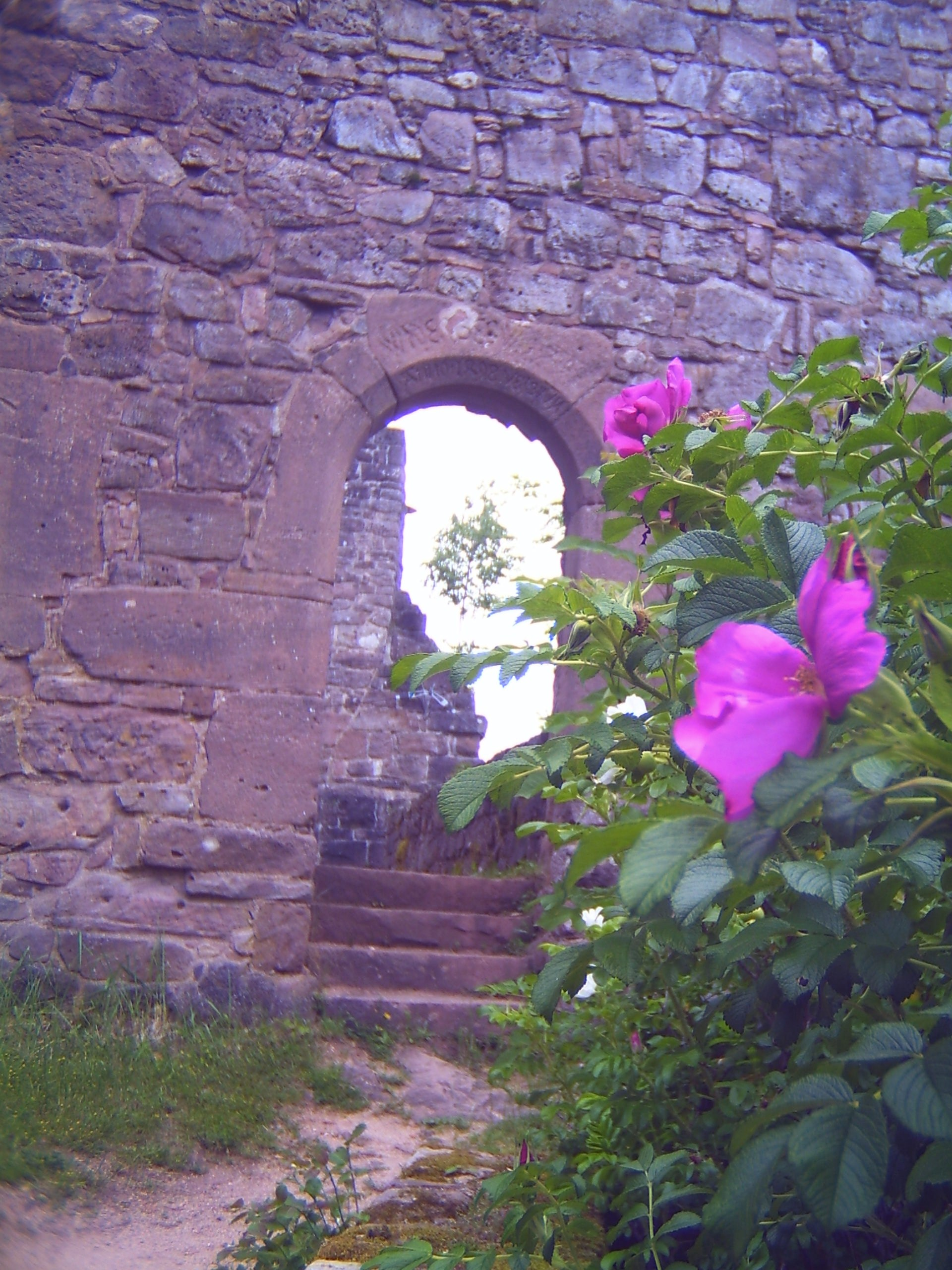 Hohenschramberg Entrance to the Front Castle